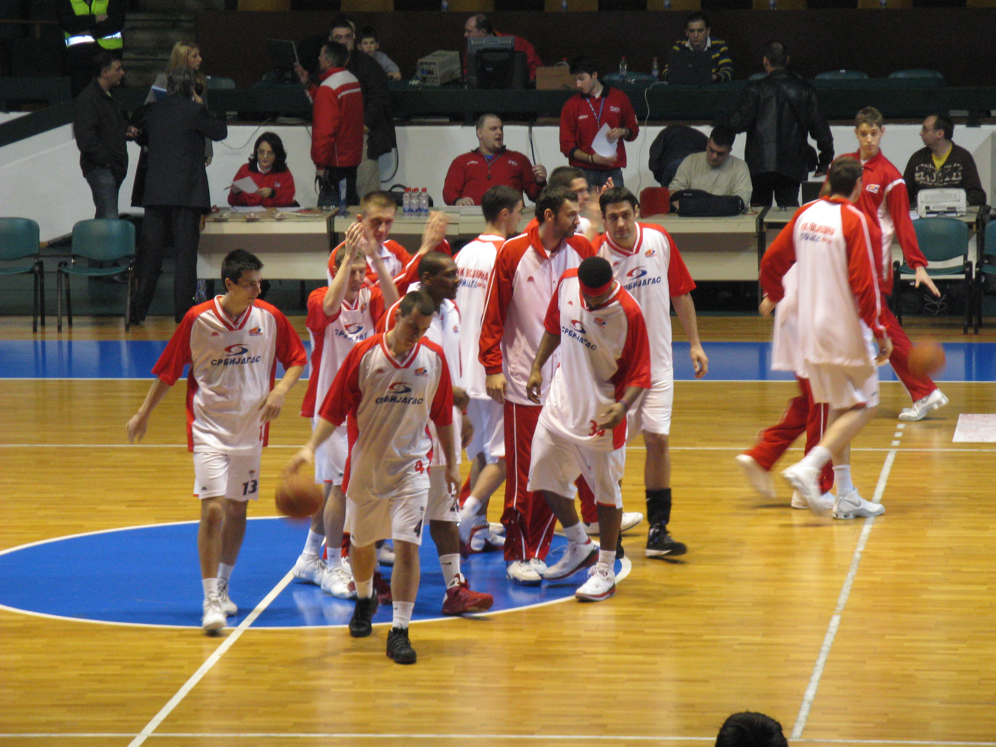 KK Vojvodina NIS-gas